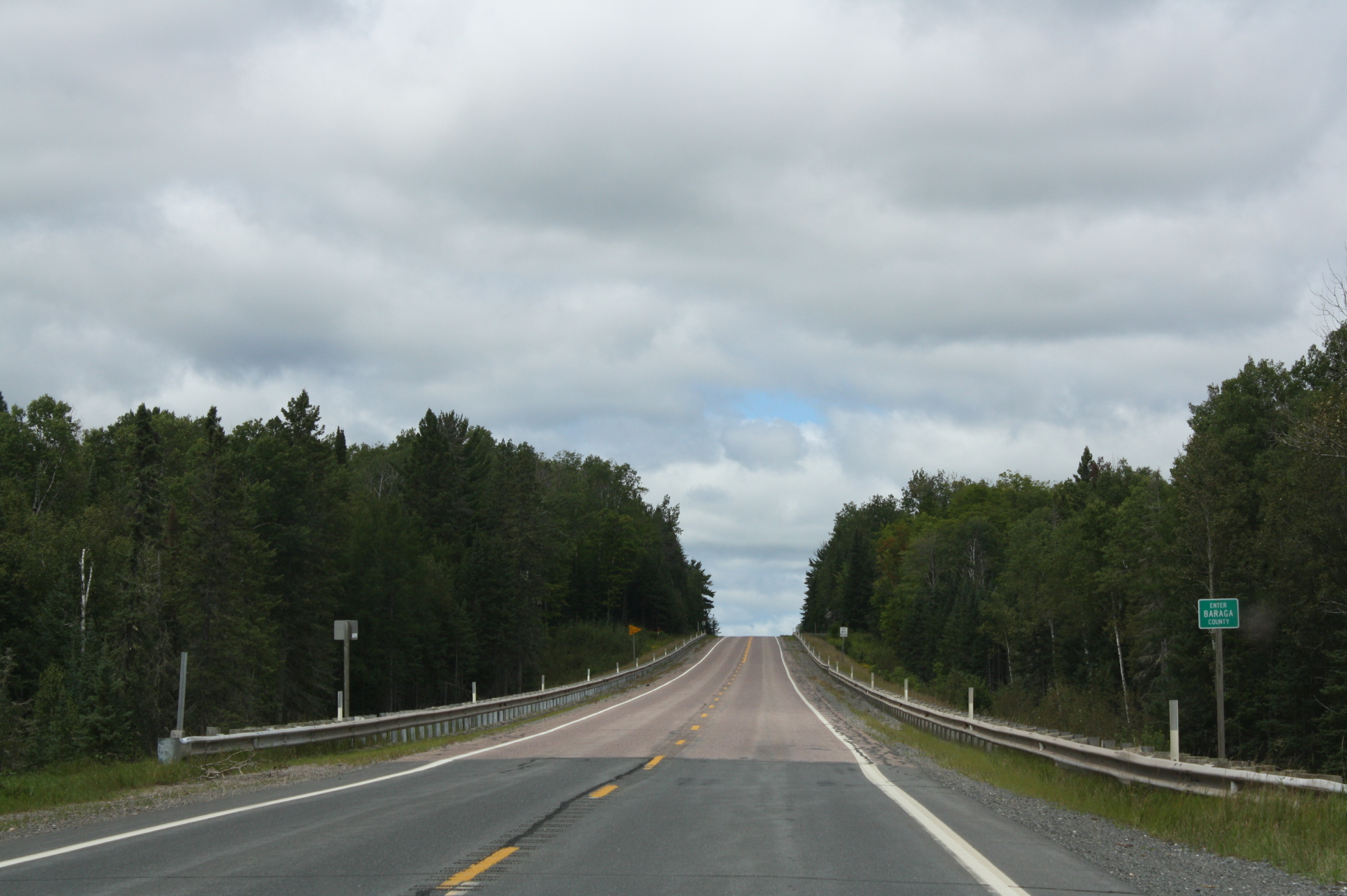 The welcome sign for Baraga County, Michigan along U.S. Route 141.